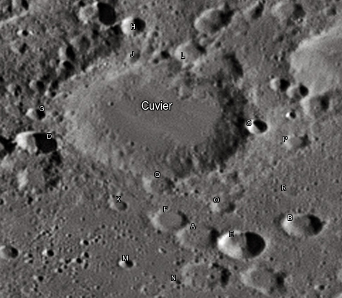 Cuvier lunar crater as seen from Earth with satellite craters labeled